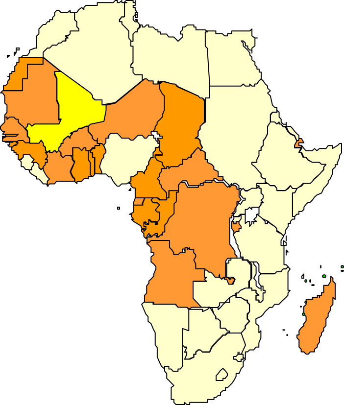 pays formé